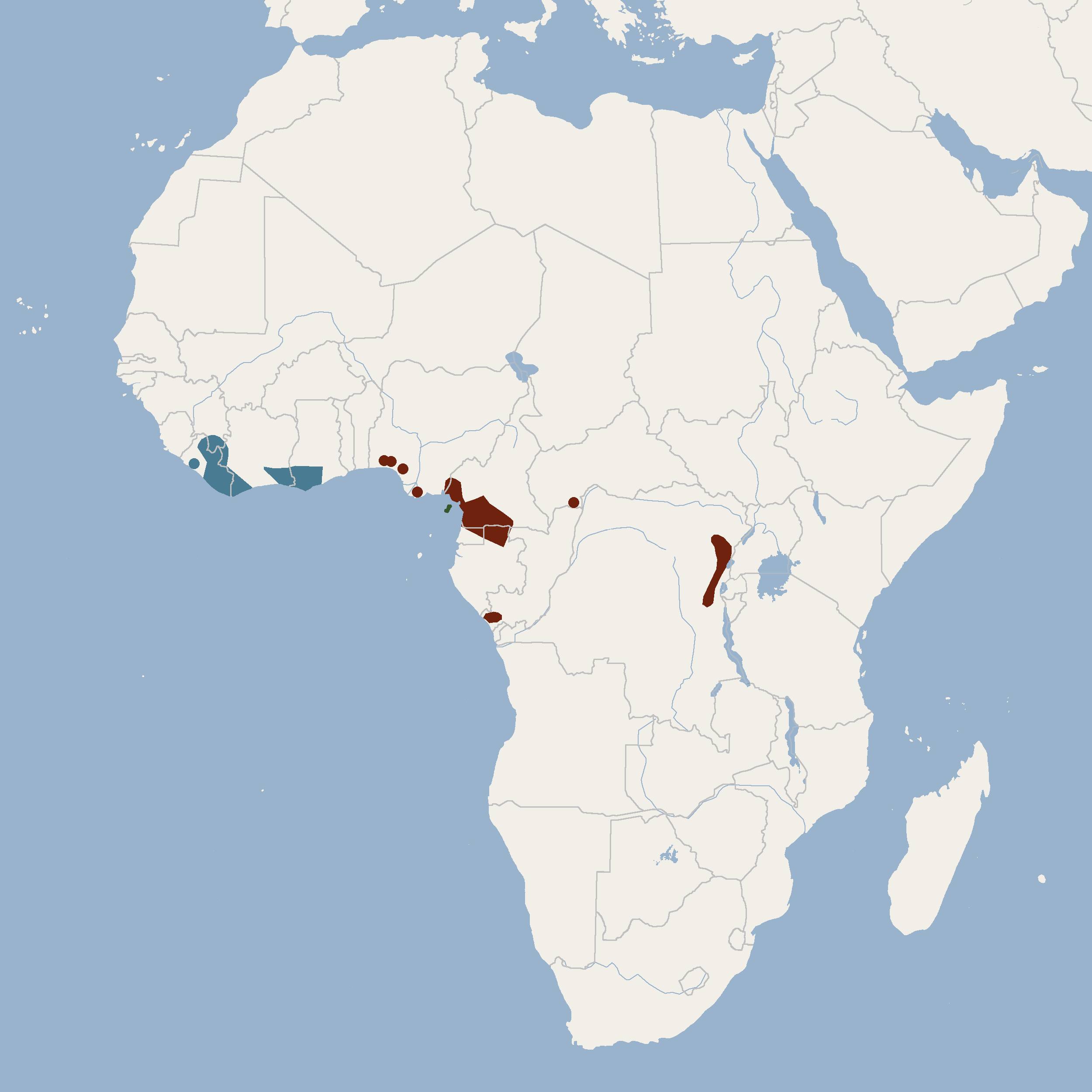 According to Happold & Happold, 2013. Subspecies range in different colours.